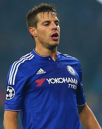 César Azpilicueta